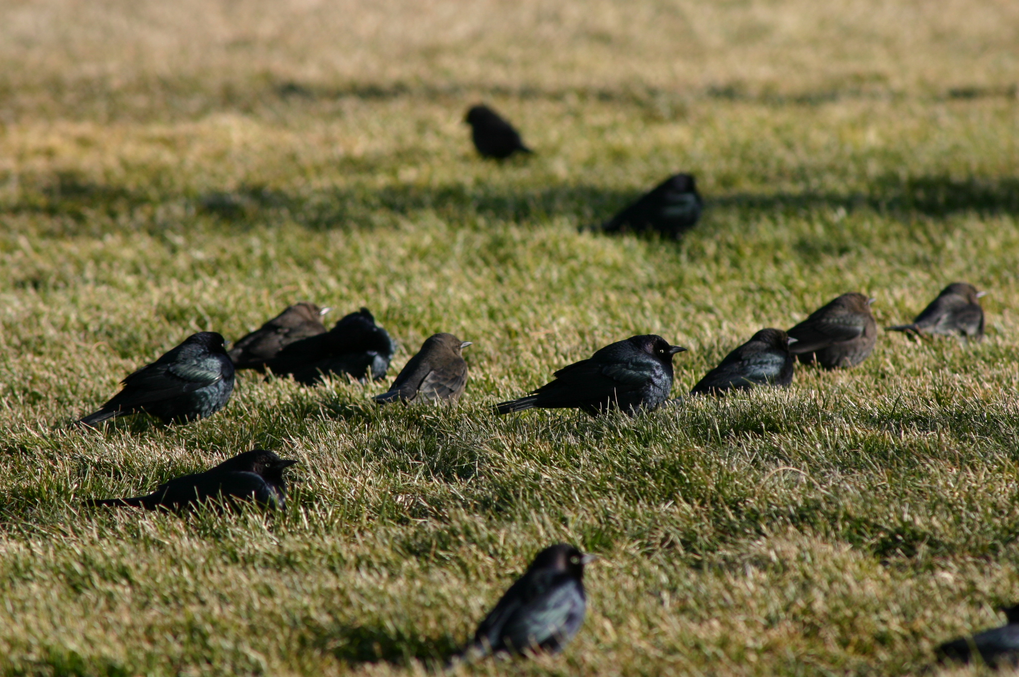 A group of Brewer's Blackbird Euphagus cyanocephalus mostly facing more or less the same direction. I-5 rest area near Lake Shastina in northern California, USA.